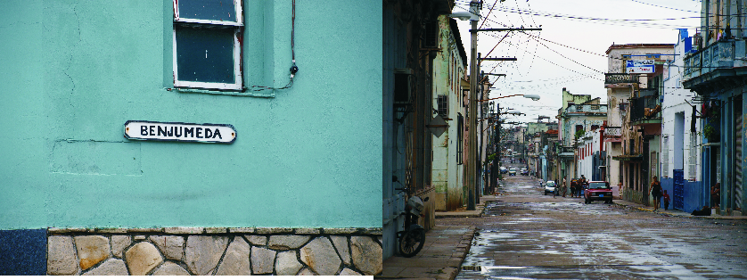 Benjumeda street in La Havana (Cuba)